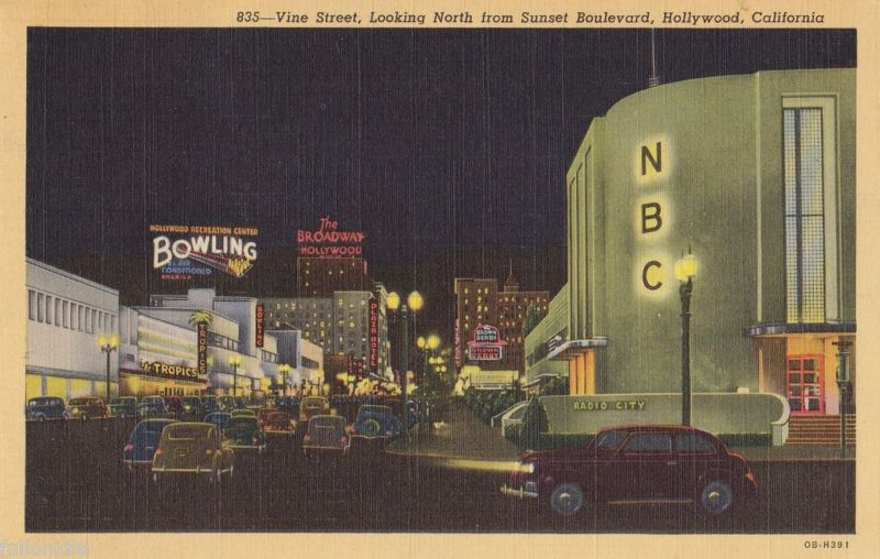 Postcard of Radio City West in Hollywood, where NBC moved many of their radio programs' production to in the late 1930s. The building was located at the corner of Sunset and Vine in Hollywood. It was razed circa 1960s-1970s and a bank currently stands at that location.